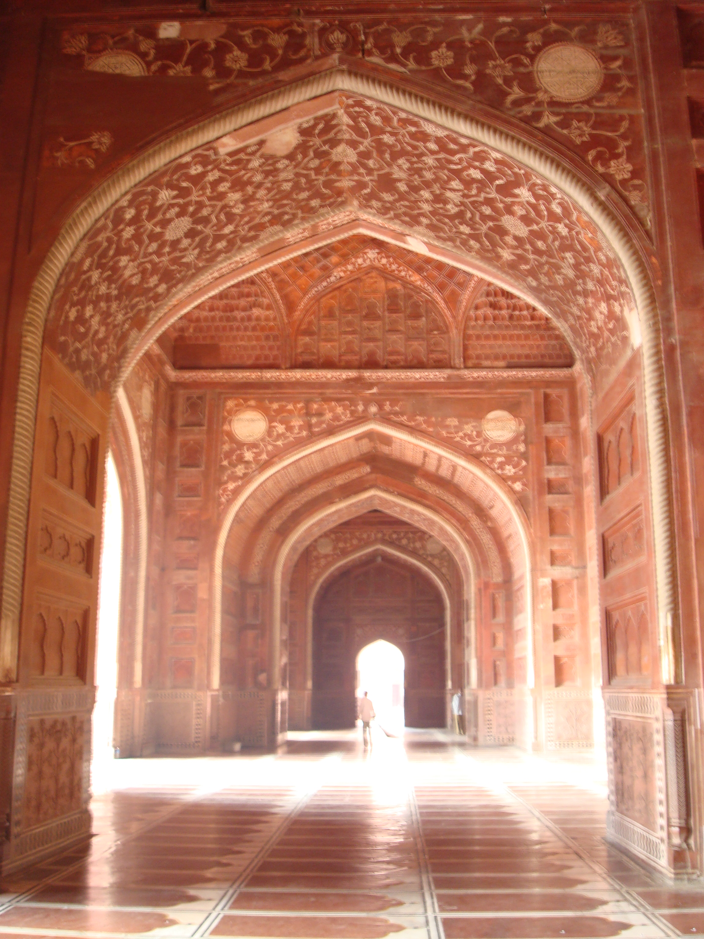 Arches in the Taj Mahal Mosque interior, Agra.